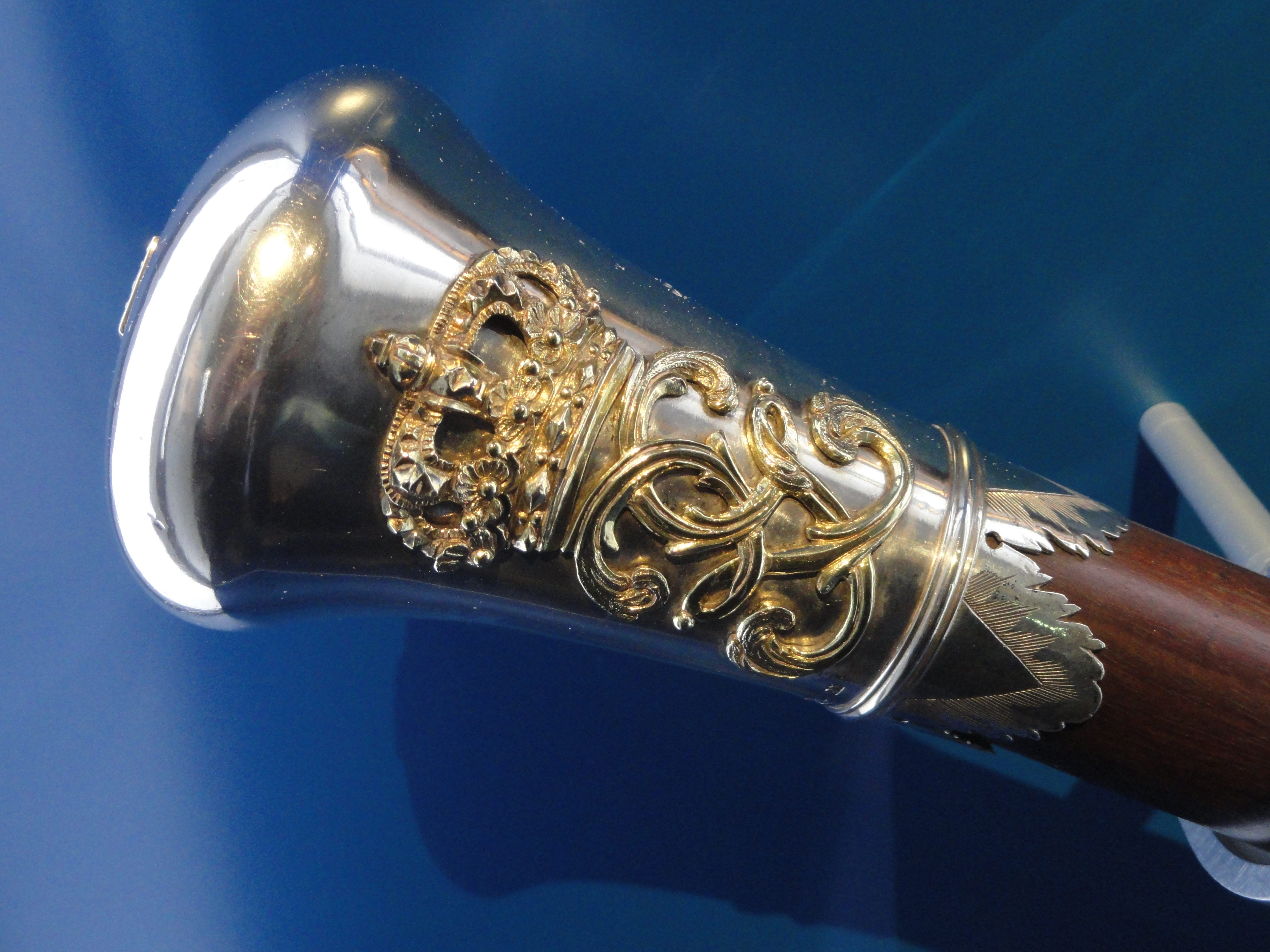 Exhibit in Hakasalmi Villa (City Museum), Helsinki, Finland. This exhibit was old enough so that it is in the public domain.